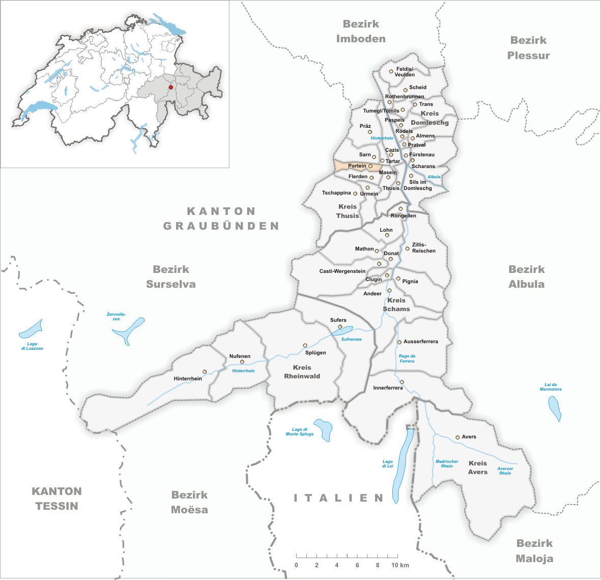 Municipality Portein